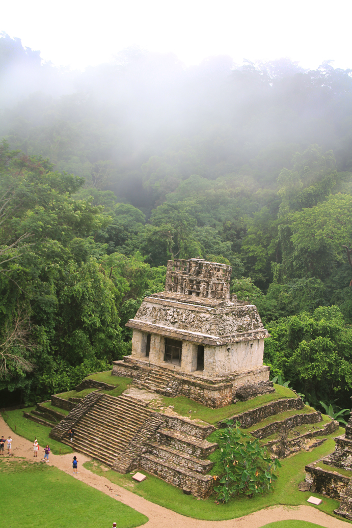 The Temple of the Sun at Palenque as seen from the Temple of the Cross.